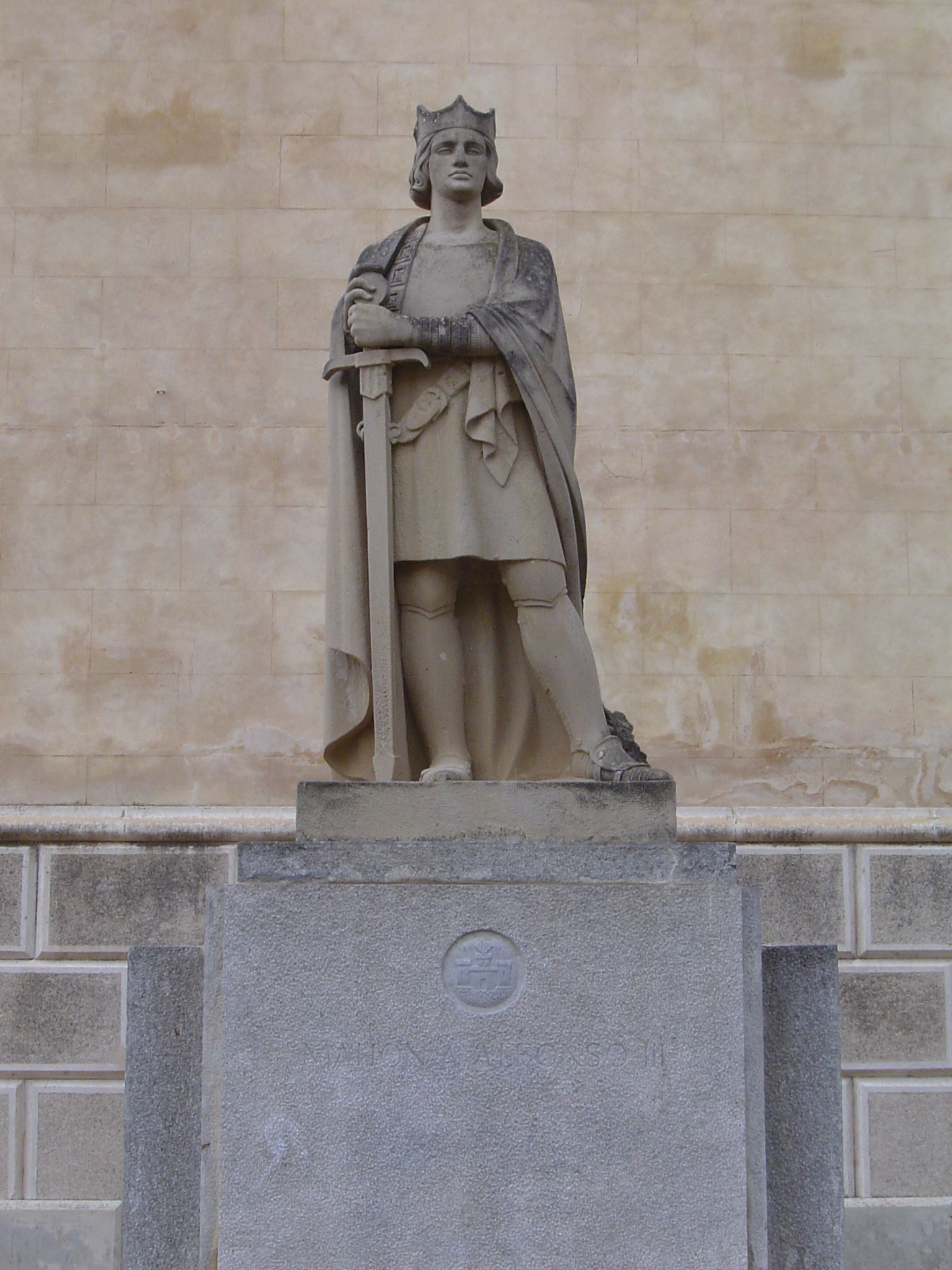 Representative statue of Alfons III of Aragó, who led the conquest of the island of Menorca in 1286.